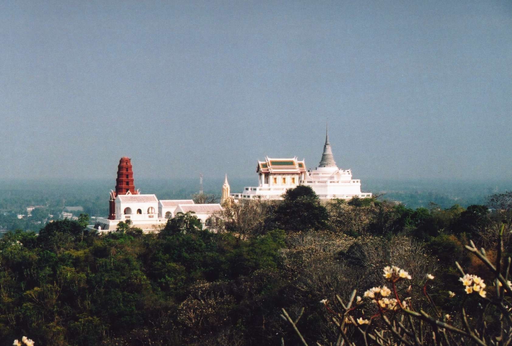 Phra Nakhon Khiri or Khao Wang, historical park in Phetchaburi. View to the royal temple Wat Phra Kaeo. Photo taken by User:Ahoerstemeier on January 11 2005.